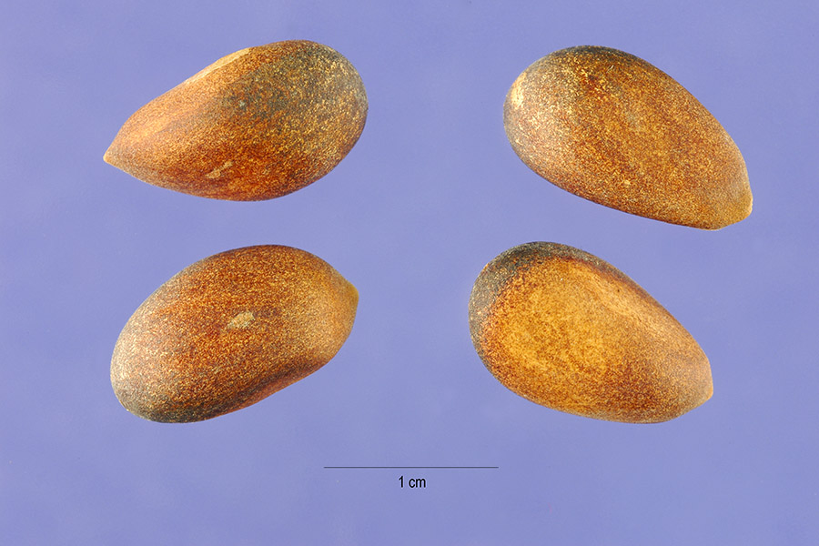 Single-leaf Pinyon (Pinus monophylla)